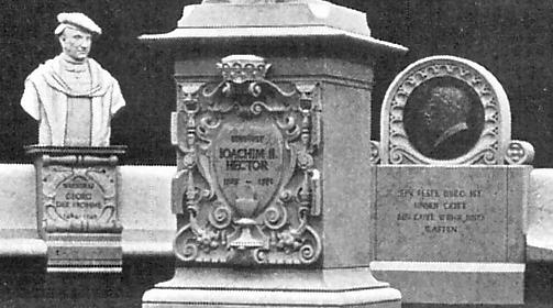 Details of the monument group № 20 in the former Siegesallee in Berlin commemorating Brandenburg’s Margrave and Elector Joachim II Hector (1505–1571). The side bust on the left commemorates George, Margrave of Brandenburg-Ansbach. In the middle the richly decorated pedestal supporting Hector with a communion chalice and host. On the right, as an addition between the two side busts, a bronze relief with a portrait medallion of Martin Luther. Sculptor: Harro Magnussen. The sculpture was unveiled on 22 December 1900.